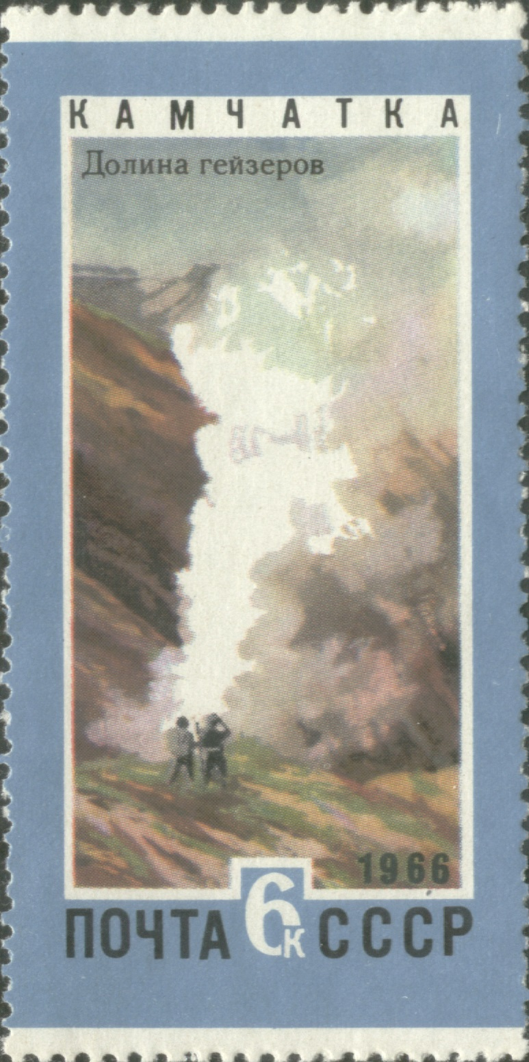 A USSR stamp